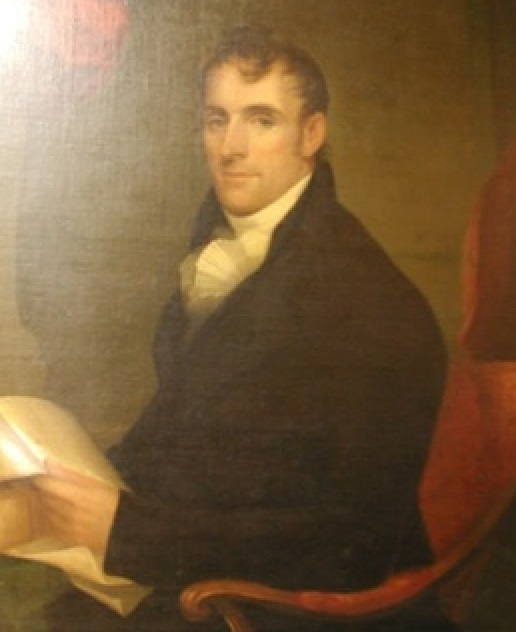 Matthias B. Tallmadge, United States judge from New York